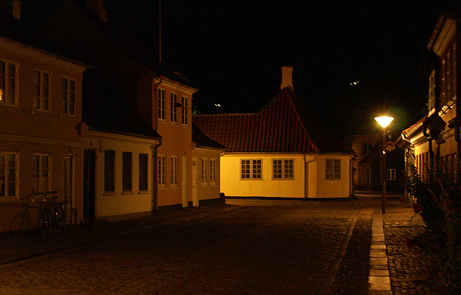 Hans Christian Andersen house in Odense, Denmark